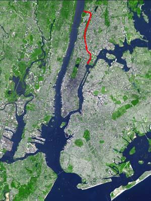 The Harlem River, shown in red, between the Bronx and Manhattan in New York City